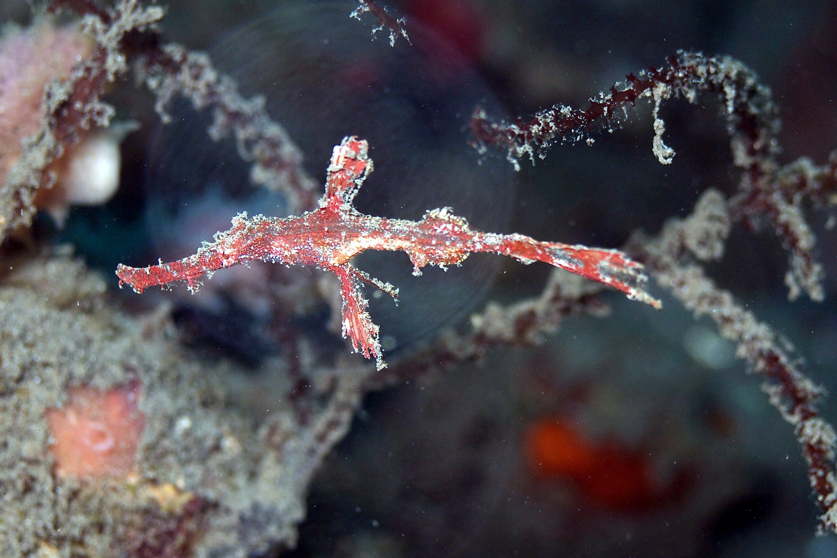 Solenostomus leptosoma, Sorong, Papúa Occidental, Indonesia